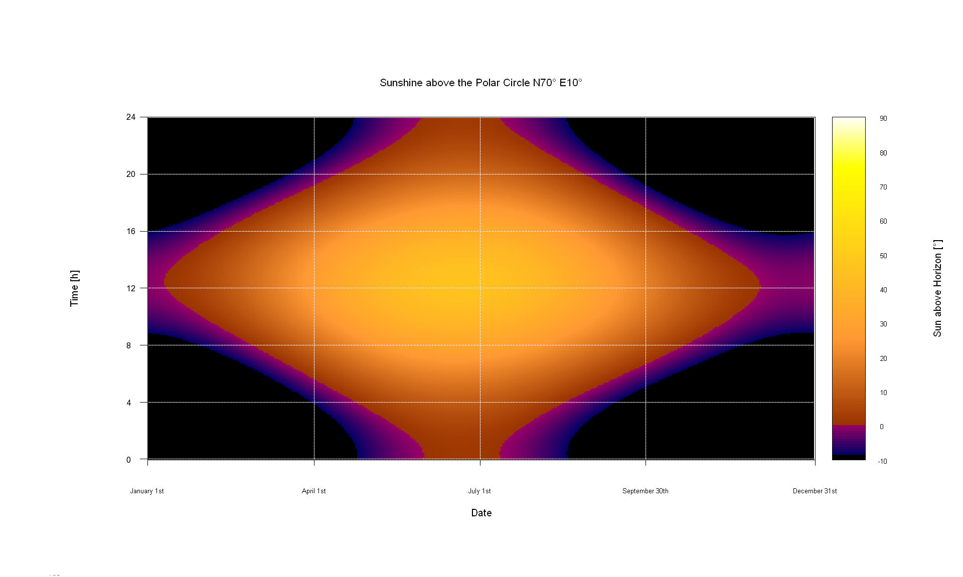 Carpet Plot showing Elevation of sun above horizon North of the Polar Circle